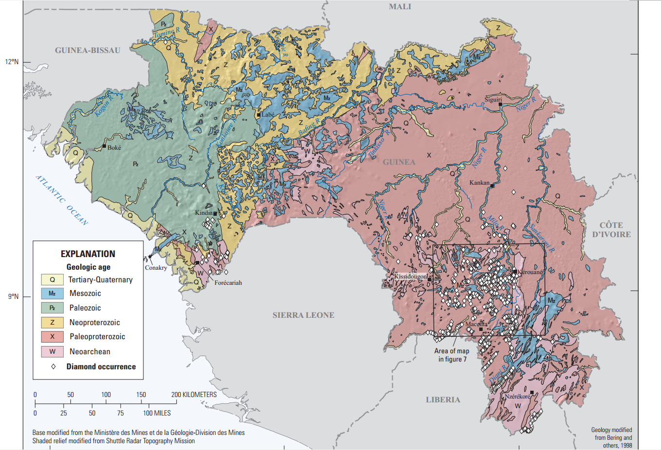 USGS geologic map Guinea